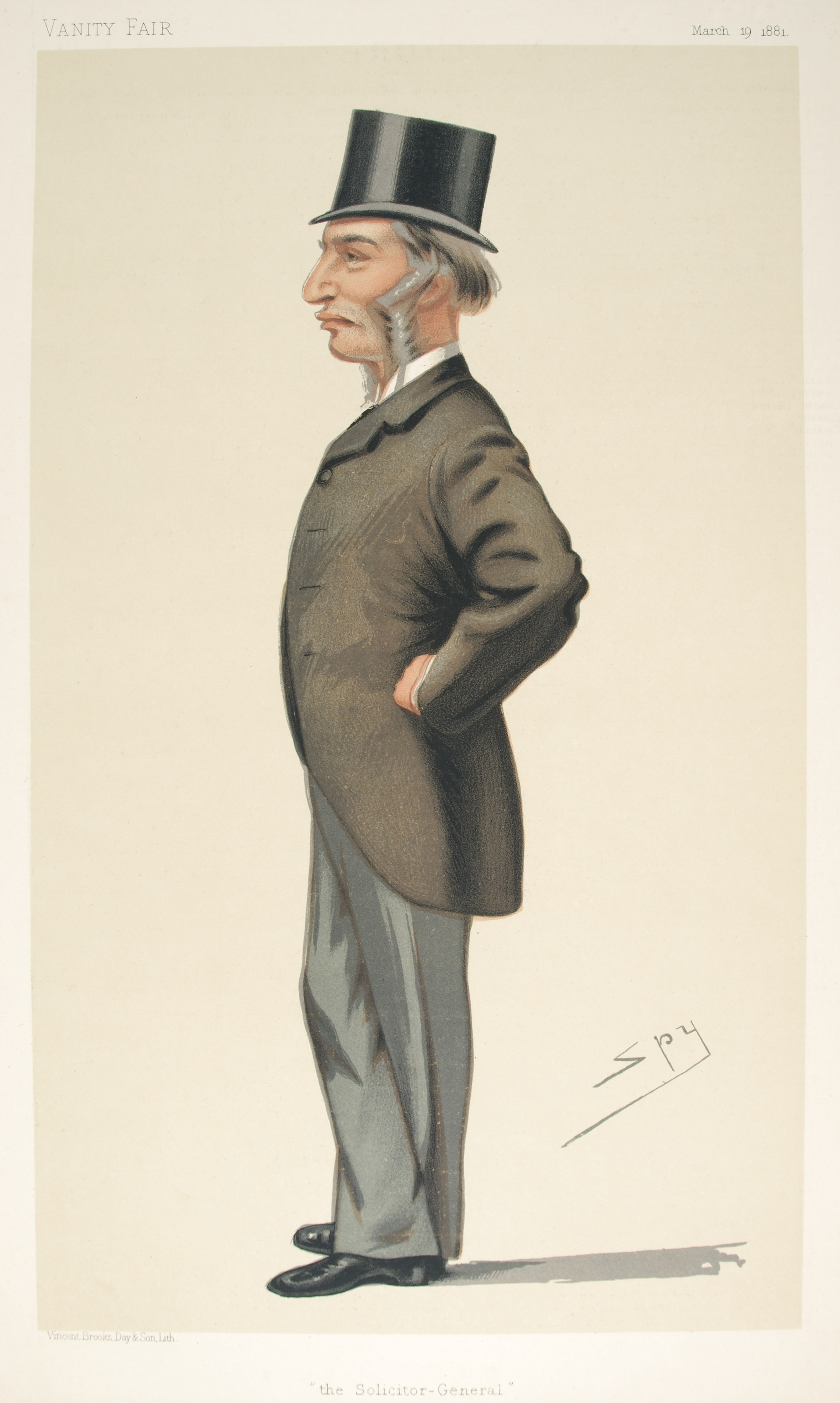 Statesmen No.353: Caricature of Sir Farrer Herschell QC MP. Caption reads: "The Solicitor-General."